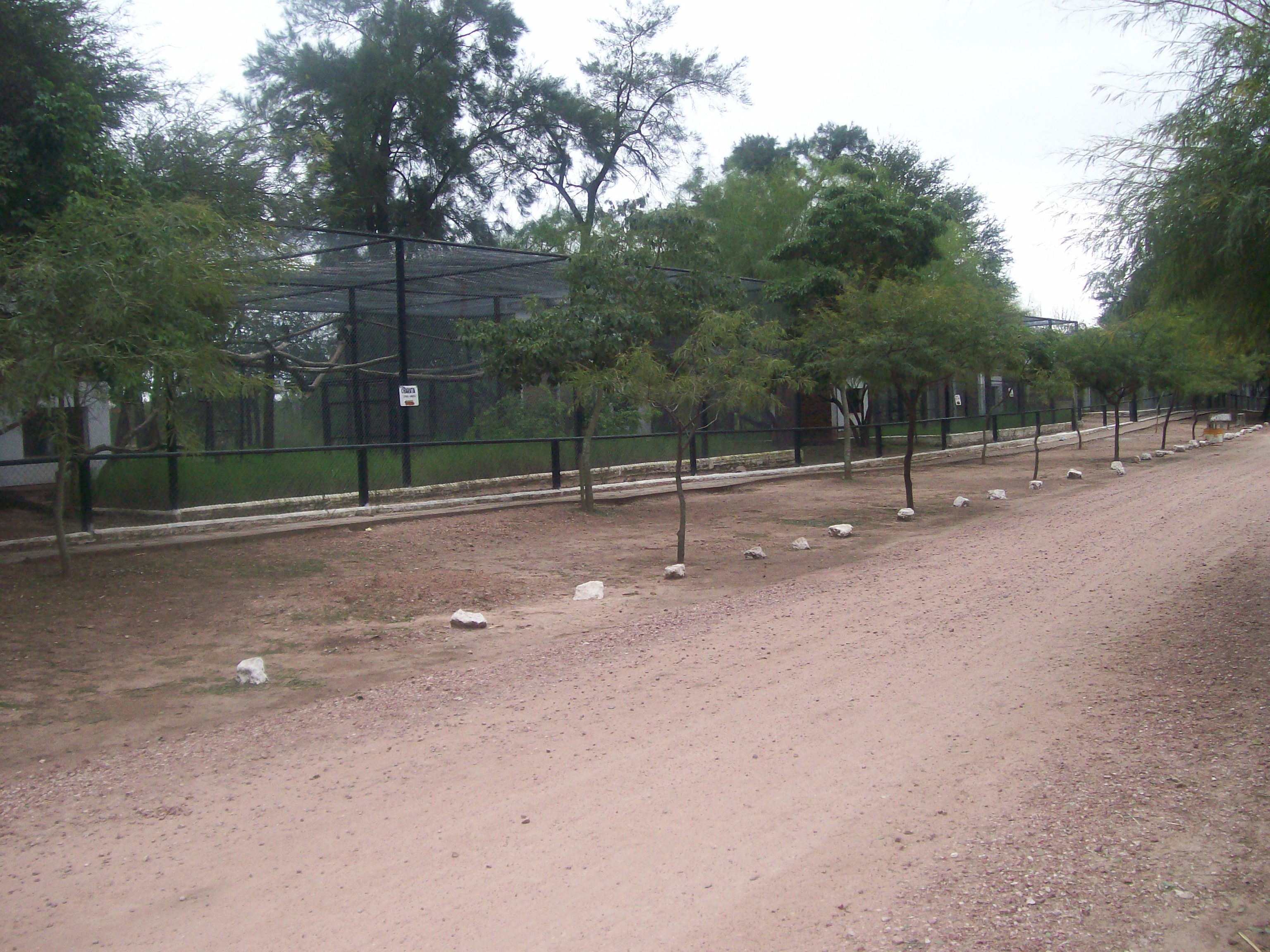 Path in Presidencia Roque Sáenz Peña's Zoo (Chaco Province, Argentina). You can see cages of local birds.